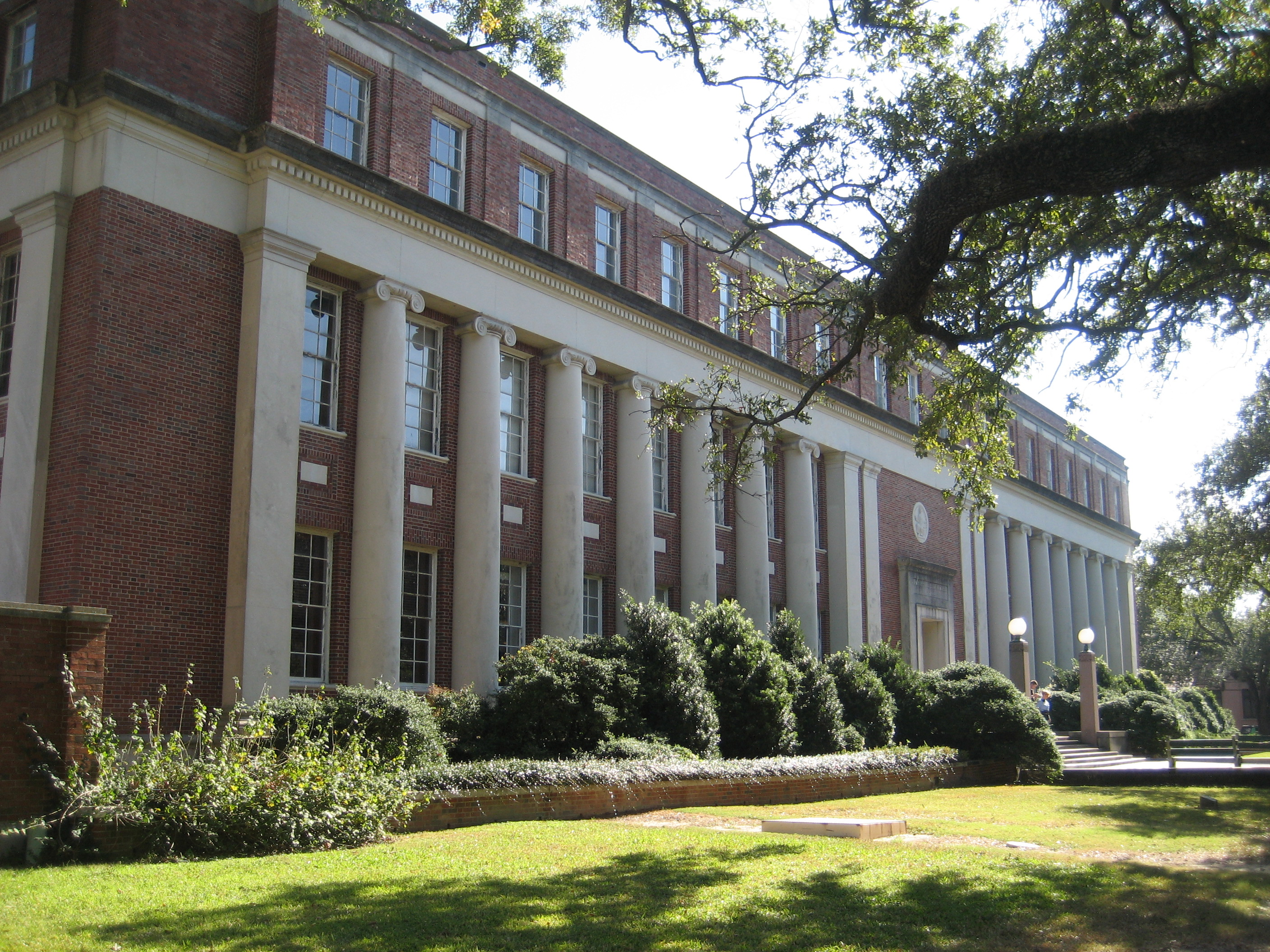 Tulane University campus, New Orleans. Jones Hall building, former law library, now special collections library.